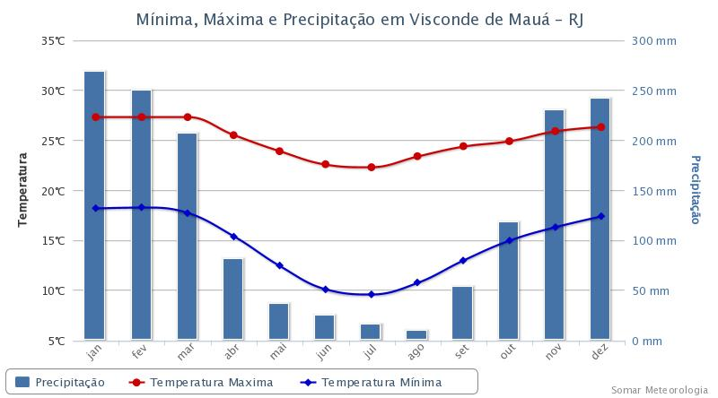 VISCONDE CLIMATE